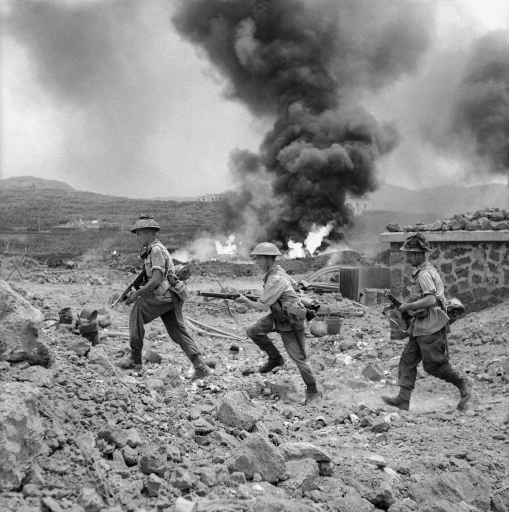 Pantelleria and Lampedusa May - June 1943: Men of 1st Battalion, The Duke of Wellington's Regiment, advance past a burning fuel store on Pantelleria. Left to right: Lance Sergeant A Haywood, Private C Norman and Private H Maw.